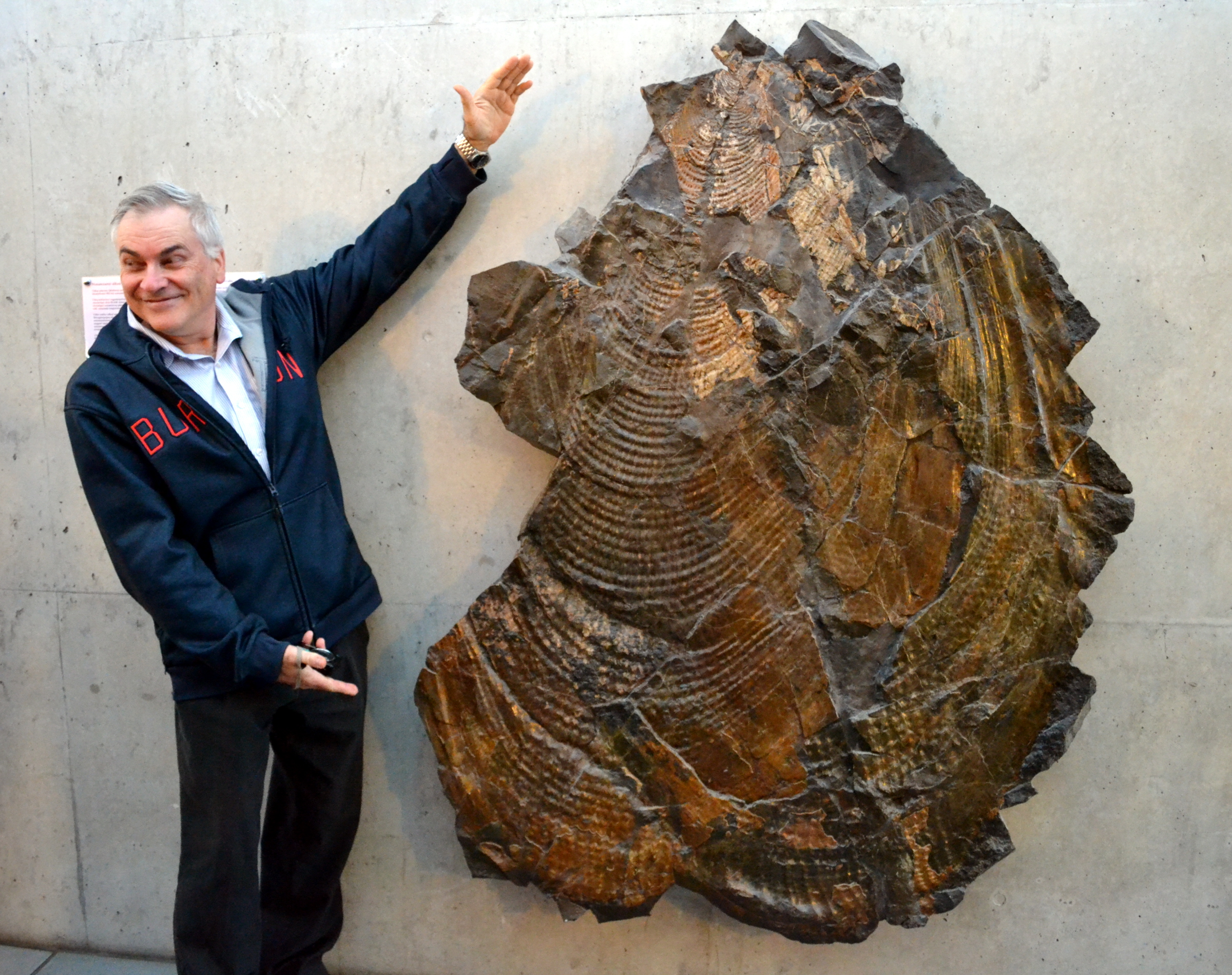 ___ Largest Bivalve in the World (from signage) A shell of a bivalve mollusc that was found in 1952 in the valley Qilakitsoq on the Nuussuaq peninsula in western Greenland. The scientific name of these bivalves is Inoceramus steenstrupi. They lived between 83 and 63 million years ago. These are the largest bivalves ever to exist. It is thought that they lived in an oxygen-poor environment and that they layed unattached on the sea floor filtering plankton and detritus from the water. The shell is 178 cm (70 inch) long. The other half of the bivalve is in the Geological Museum of Copenhagen. ___ On display at the Greenland Institute of Natural Resources. Link to this new Institute filled with many hallway displays at hey now, "moi" for scale and a line-up of 2014 Nuuk Geoscience Workshop geologists waiting for their turn with the mighty mollusk. The Nuuk display is geotagged instead of the Cretaceous fossil-bearing rock formation on the opposite side of Greenland. Photo by H. Steenkamp with permission for my photo-shop'd posting.